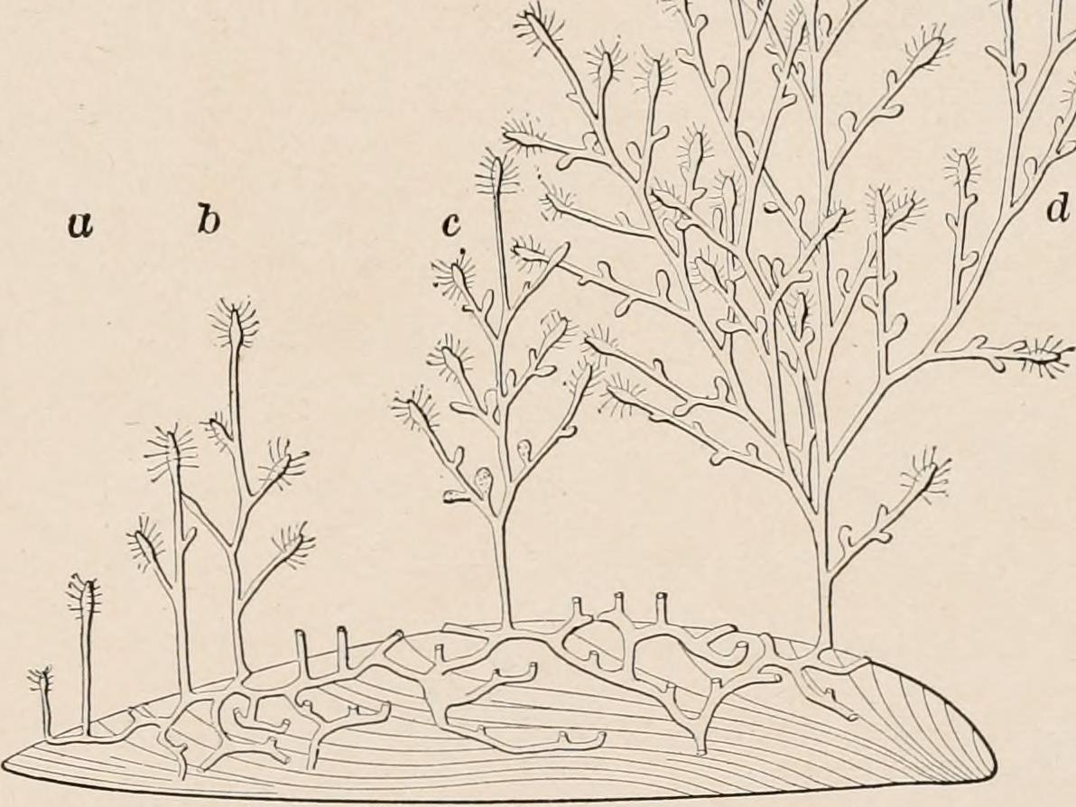 Identifier: introductiontozo00dave Title: Introduction to zoology; a guide to the study of animals, for the use of secondary schools; Year: 1900 (1900s) Authors: Davenport, Charles Benedict, 1866-1944 Davenport, Gertrude Anna Crotty, 1866- Subjects: Zoology Publisher: New York, Macmillan company London, Macmillian and co., ltd. Text Appearing Before Image: \ fWo/ ) v) Ik Text Appearing After Image: '